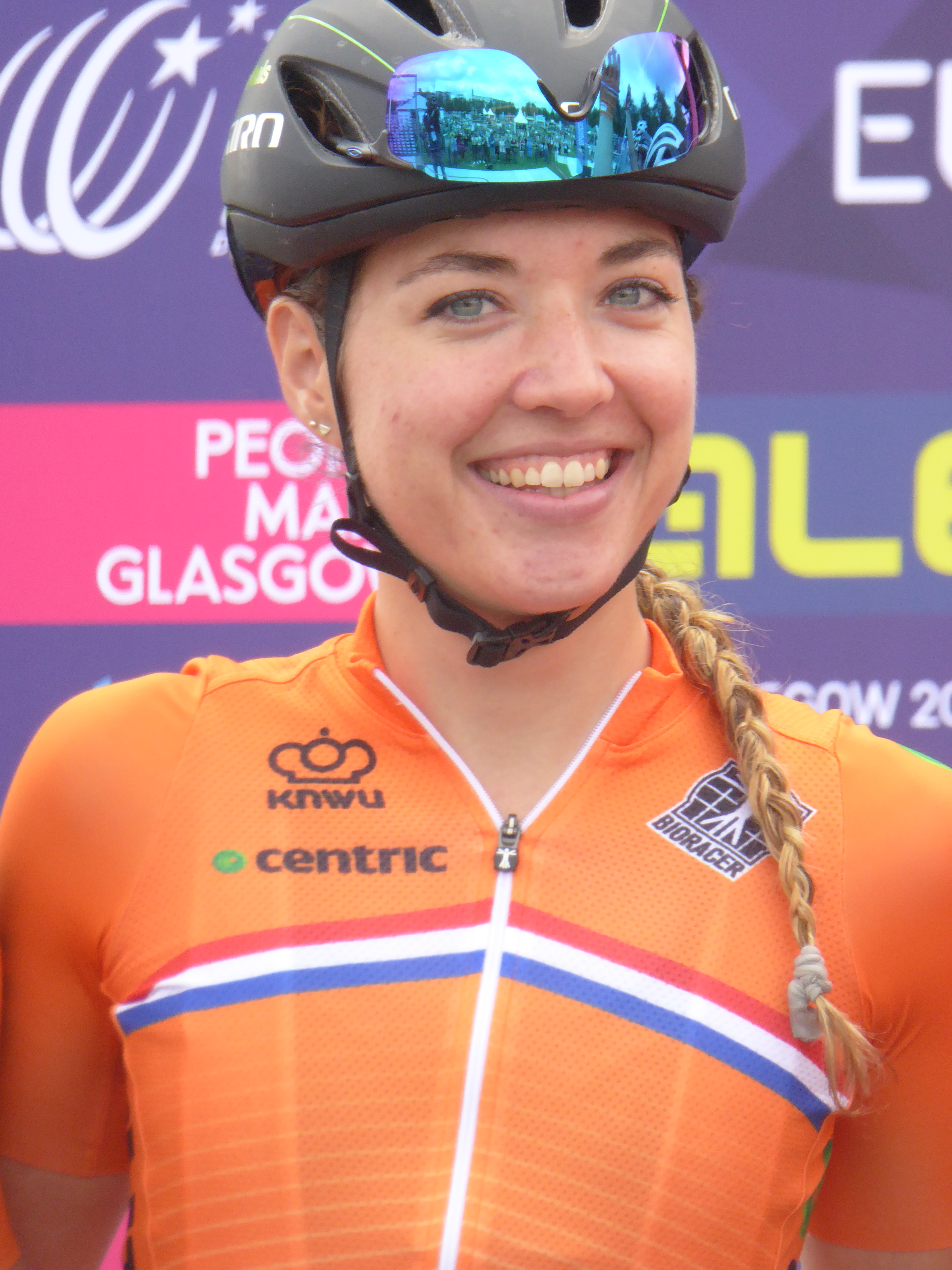 Sabrina Stultiens (Netherlands), prior to the women's road race at the 2018 UEC European Road Cycling Championships in Glasgow.